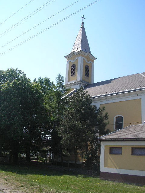 Bakonysárkány, King Saint Stephen of Hungary roman catholic church This is a photo of a monument in Hungary, Identifier: 6117